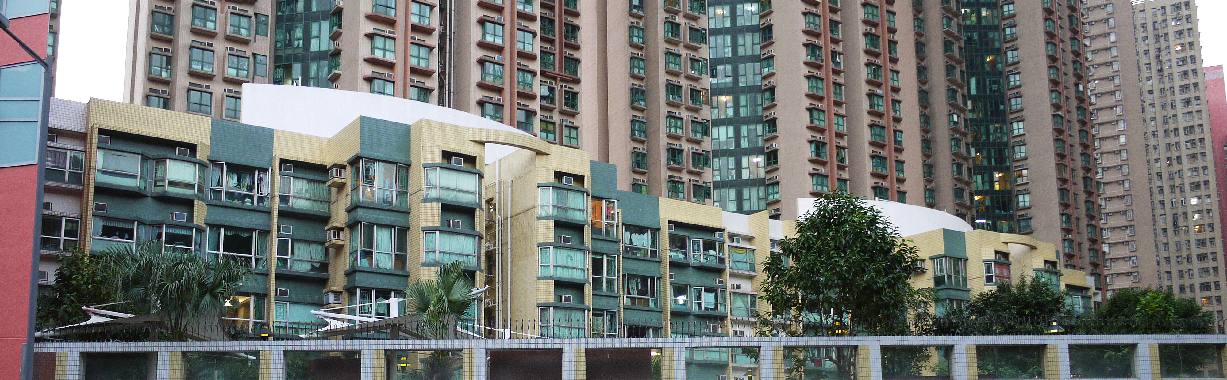 Lower rise Lower rise